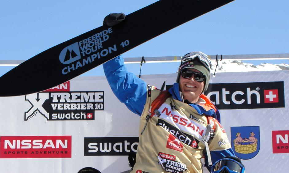 Xavier De Le Rue on the Podium of Freeride World Tour 2010 in Verbier